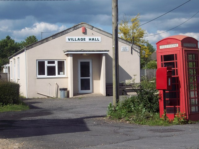 Village Hall, Winterborne Kingston A K6 type telephone box stands outside of the village hall.